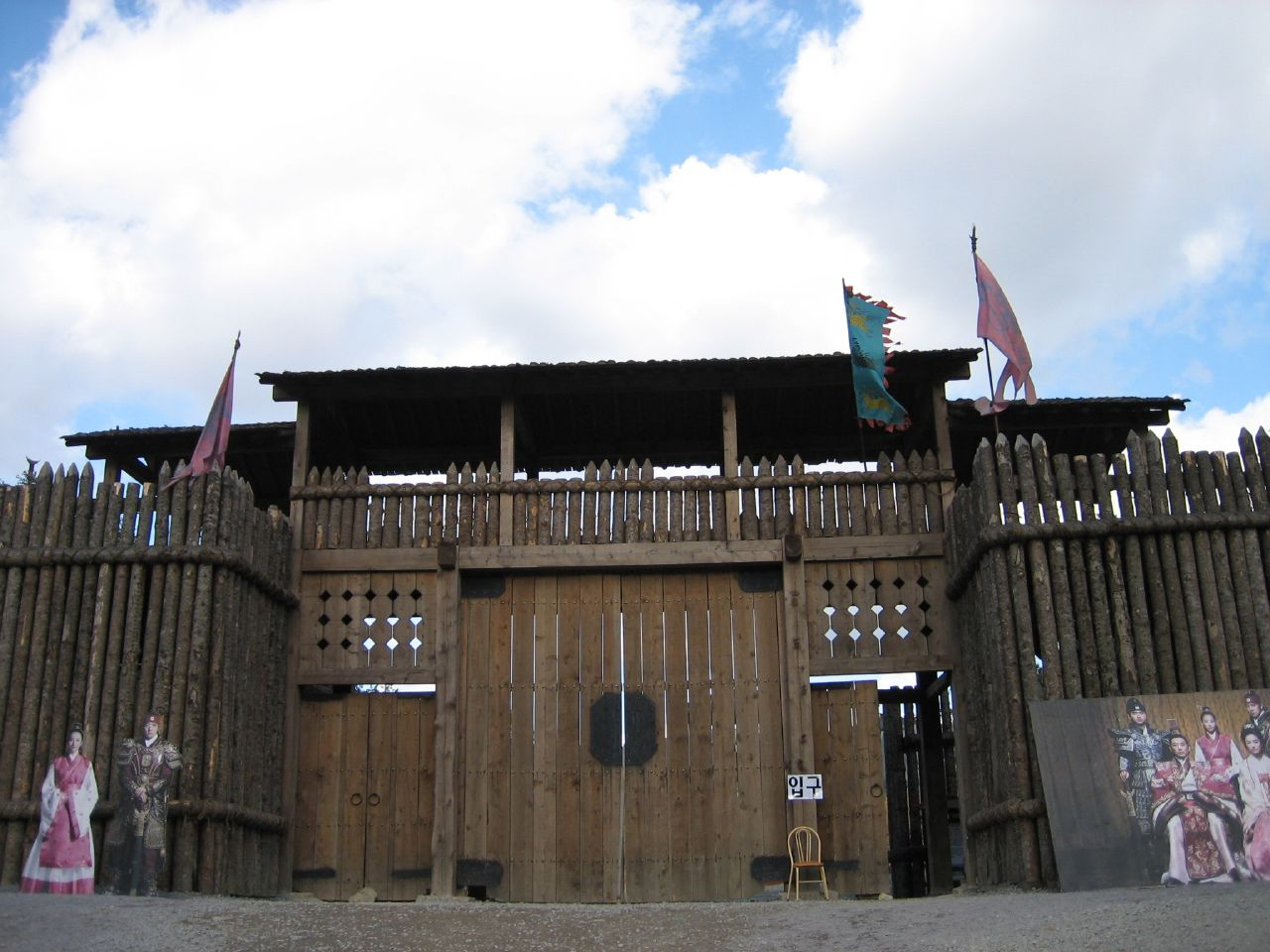 One of the sites specially built for filming 'Jumong', one of the most popular Korean TV dramas.